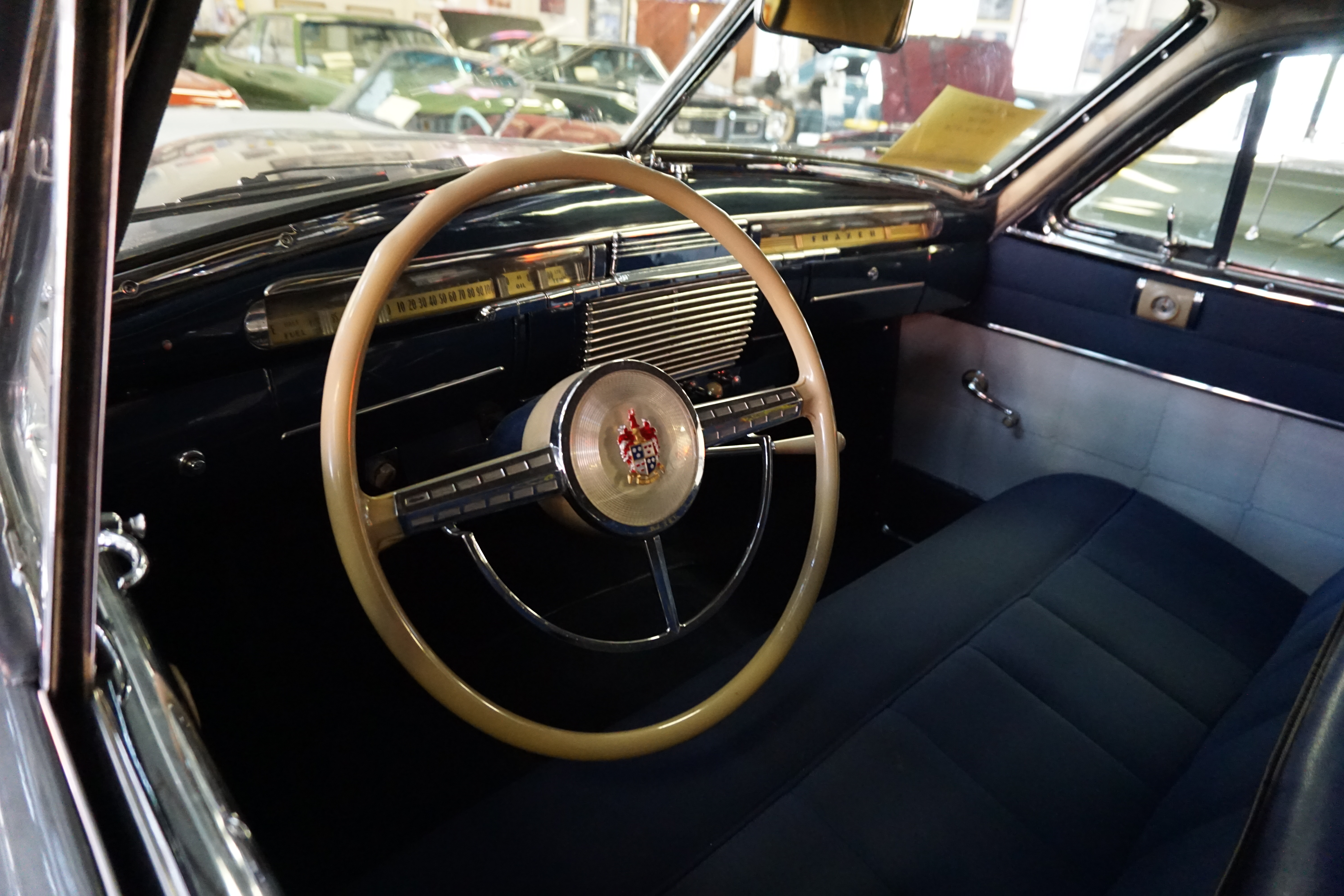 The interior of a 1947 Frazer Manhattan at the Ypsilanti Automotive Heritage Museum in Ypsilanti, Michigan (United States).